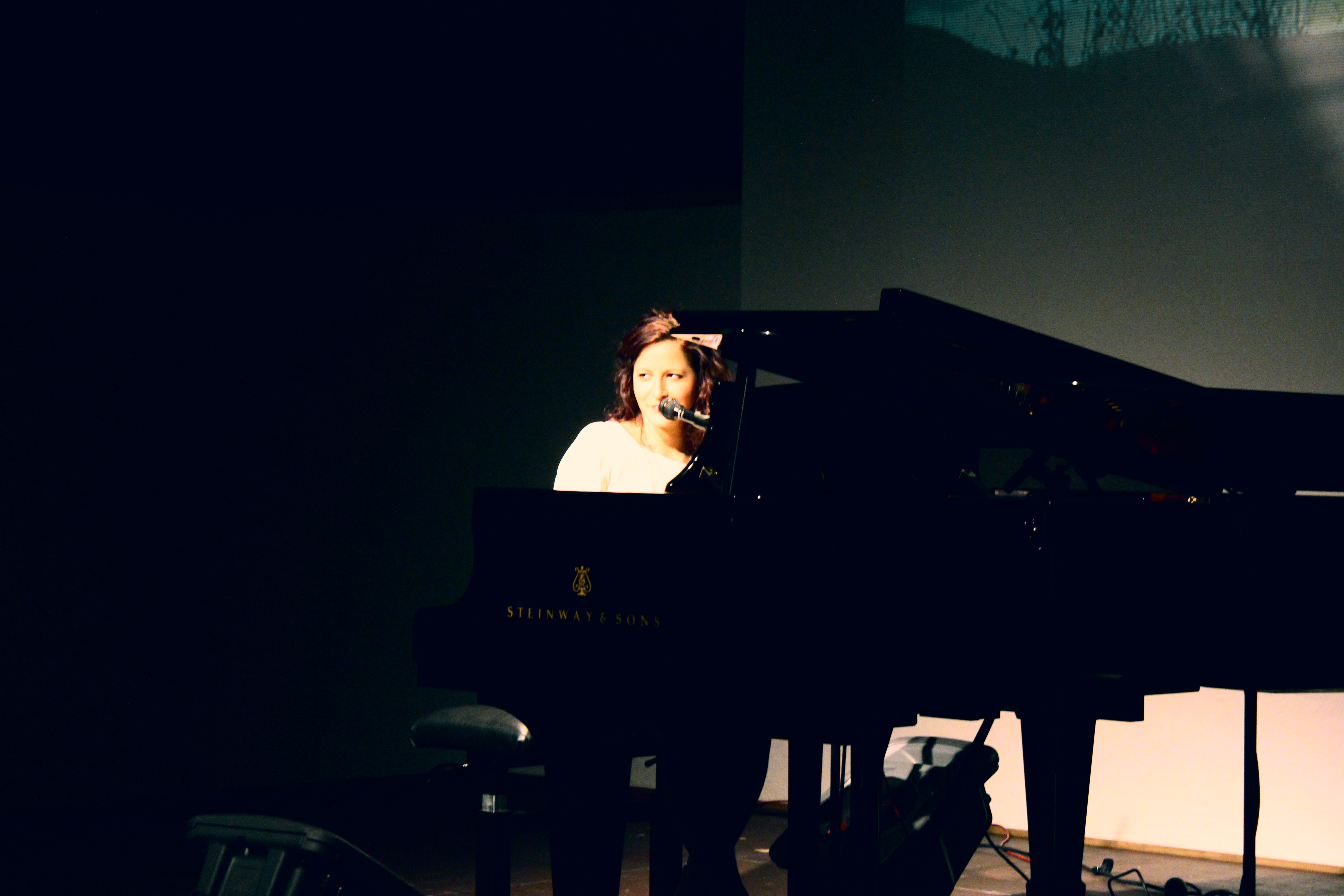 concert Irmie Vesselsky Freistadt, Austria